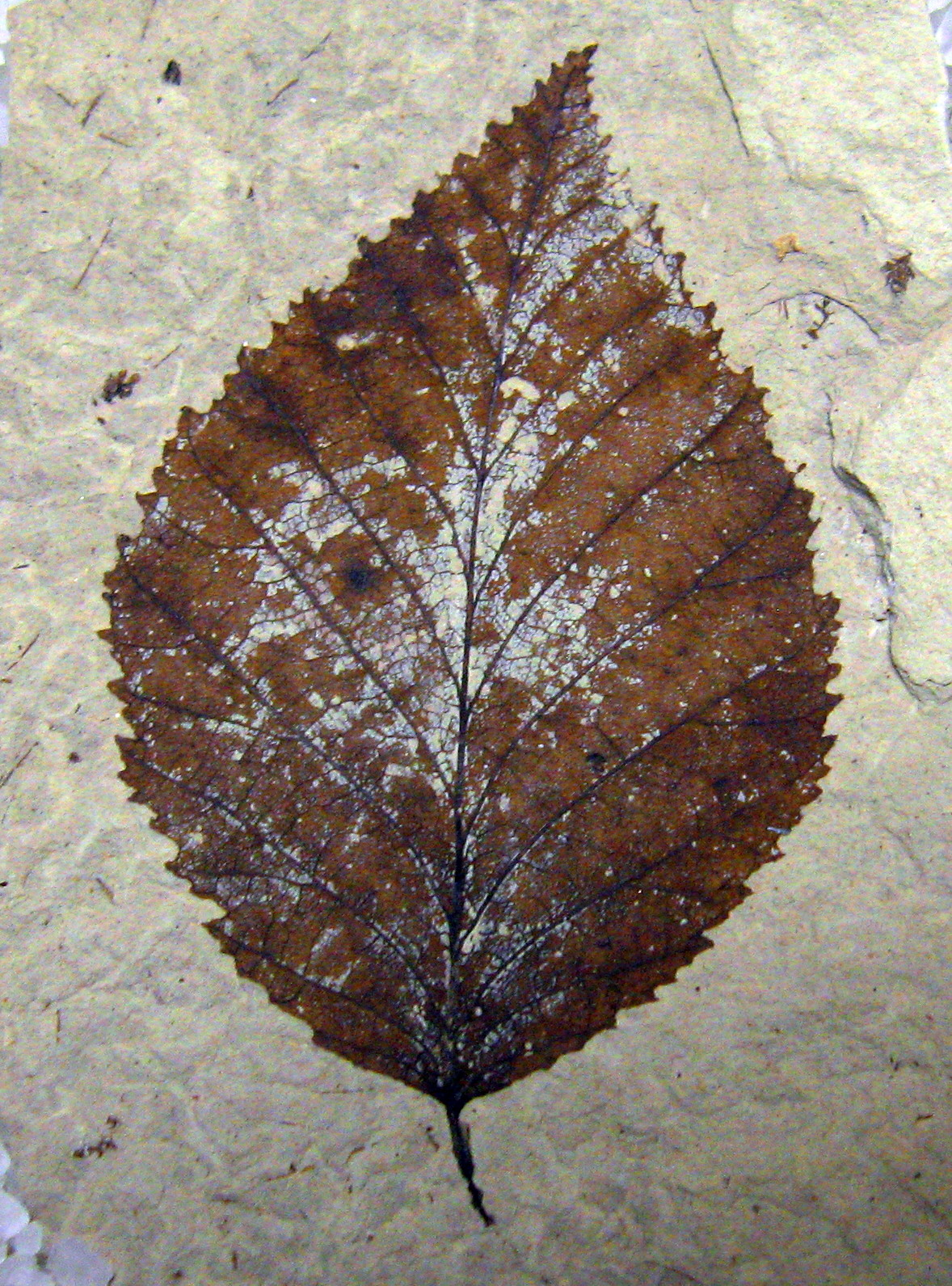 A fossil leaf from the extinct Betula leopoldae. 48.5 million years old; Klondike Mountain Formation. Republic, Ferry County, Washington, USA. Stonerose Interpretive Center # SR 06-47-06